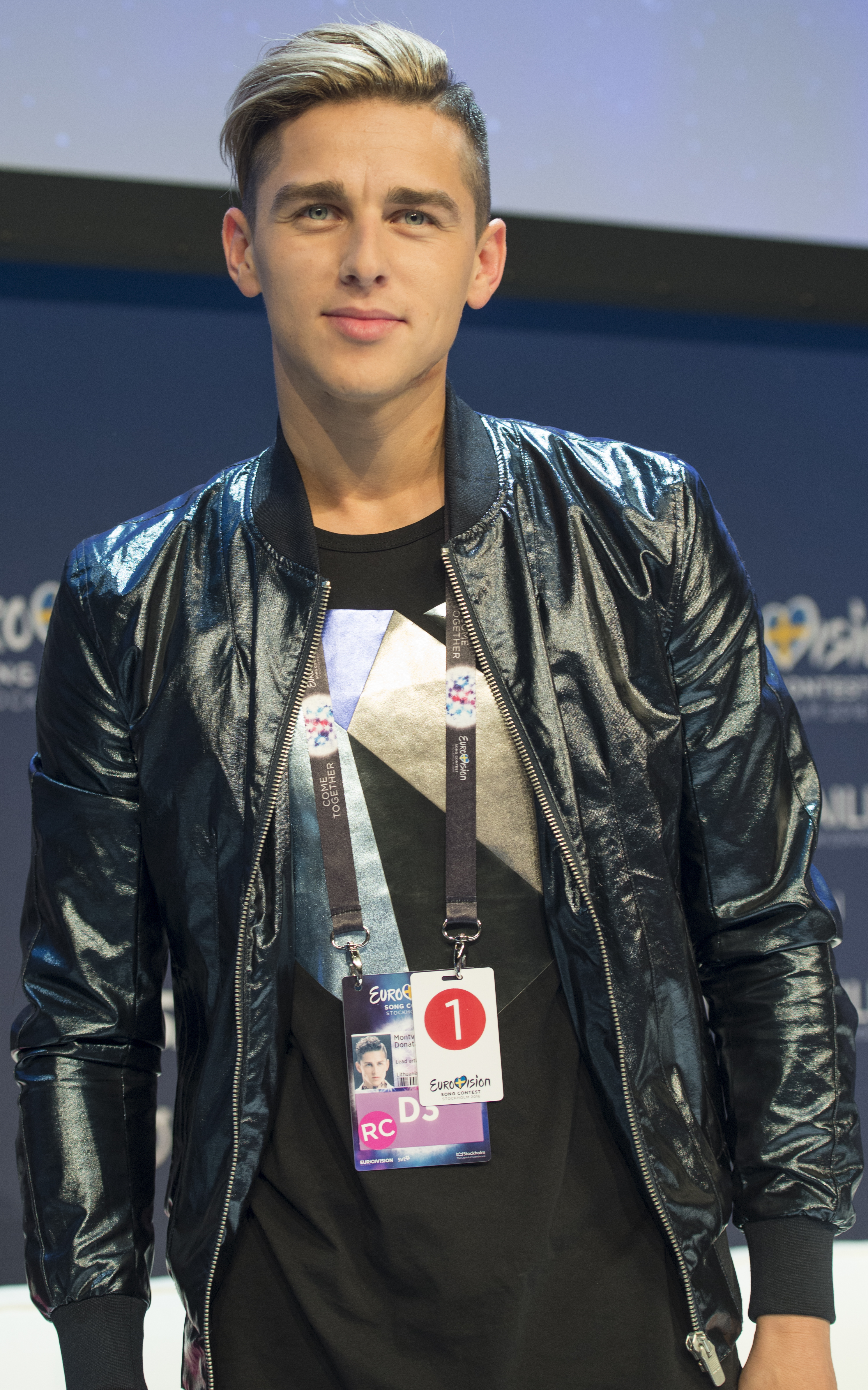 Donny Montell at a Meet & Greet during the Eurovision Song Contest 2016 in Stockholm. (Help translate this text)